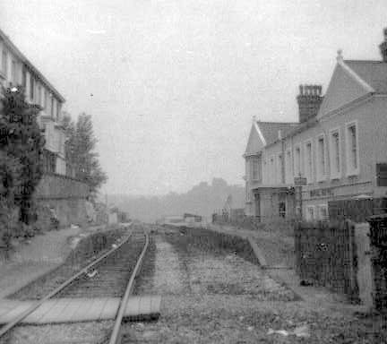 Bideford station on the line to Torrington on 07 February 1970.